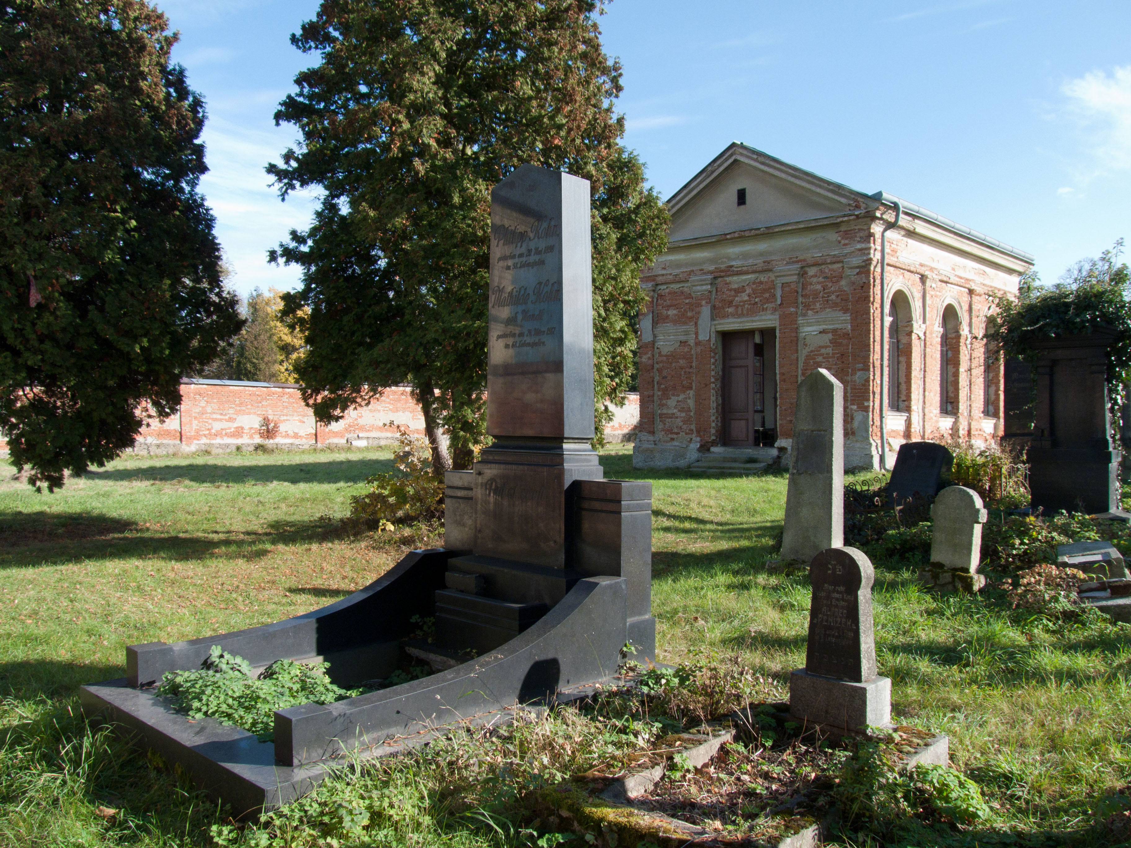 Gravestones and ceremonial hall in the Jewish cemetery in the town of Český Krumlov, South Bohemian Region, Czech Republic